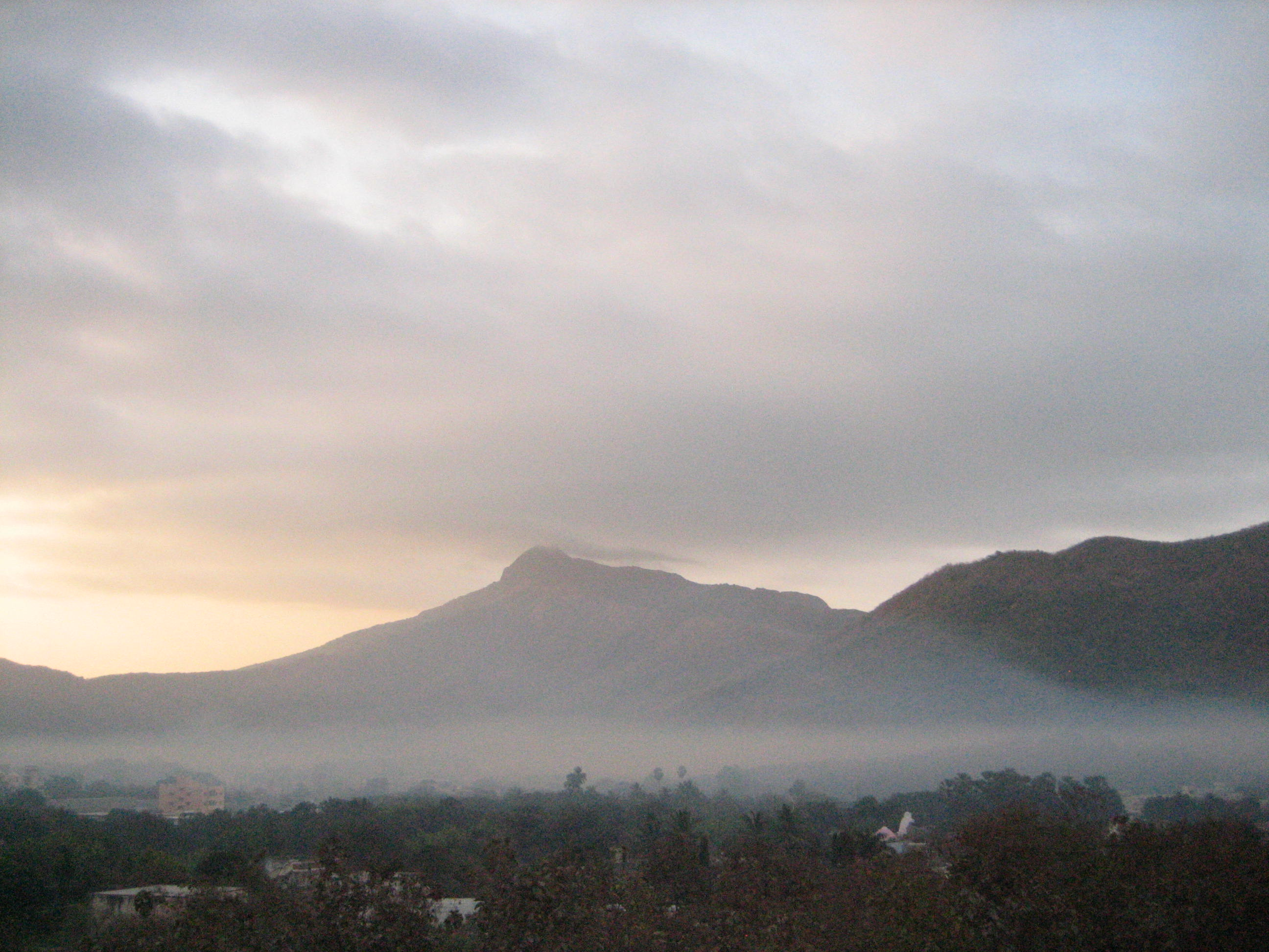 Girnar at 6.30 in the morning